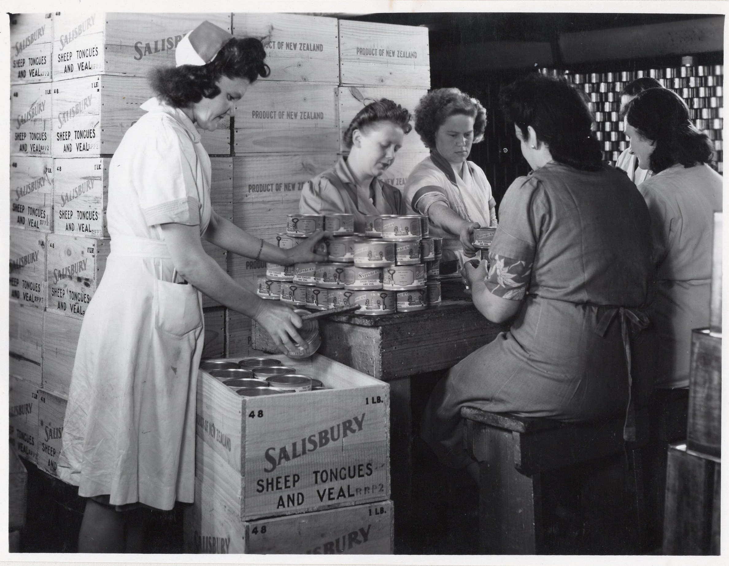 Archives New Zealand Reference: AAFZ 6329 W3302 Box 49